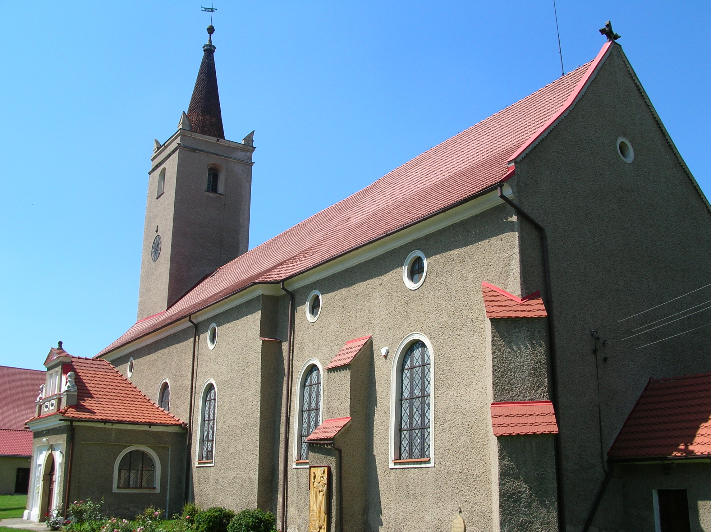 Church in Budzów